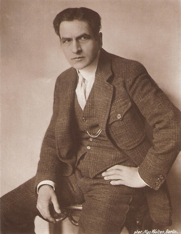 Portrait of German actor Bruno Decarli (1877–1950) by Mac Walten (né Max Grünthal; 1872–1936).